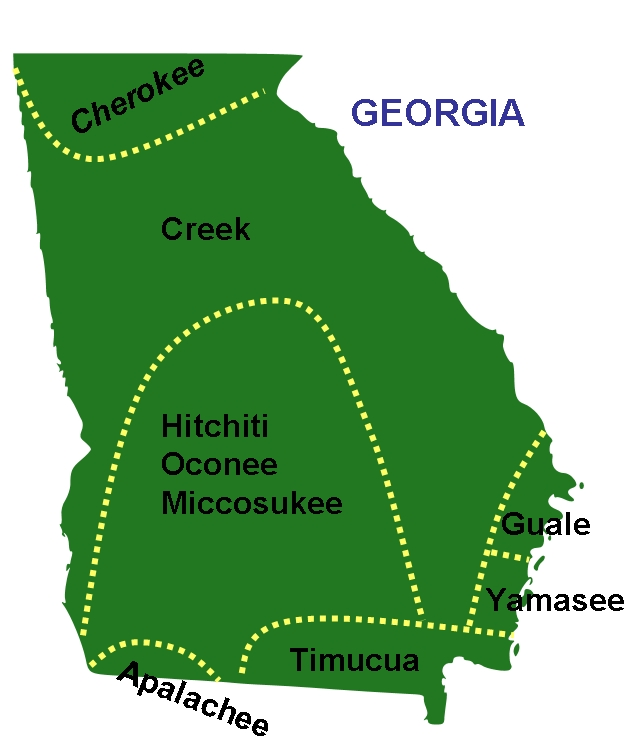 Maps of Native Americans in Georgia (US State)